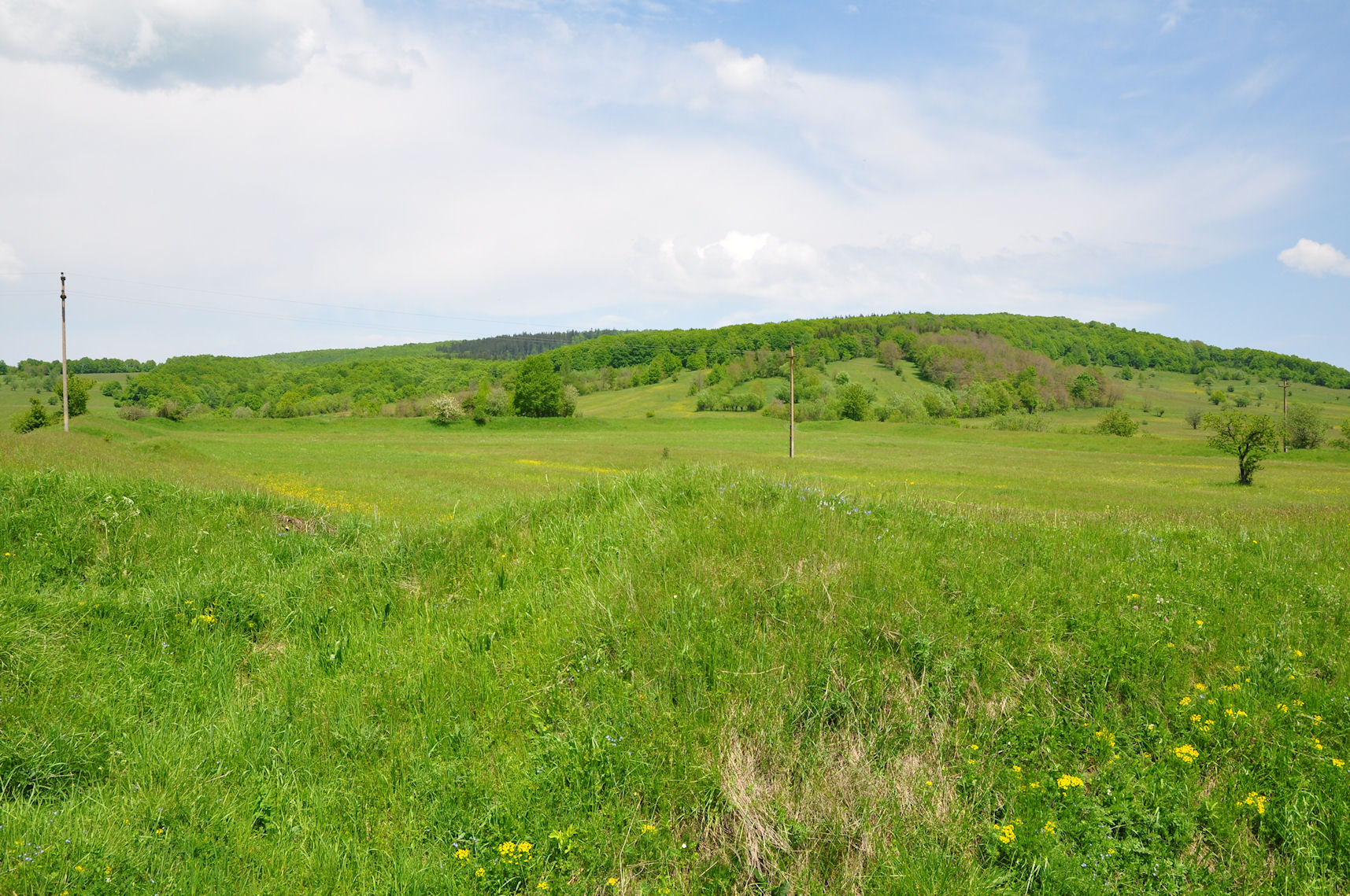 Castra Augustia